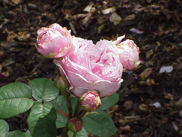 Species: Rosa sp. Family: Rosaceae Cultivar: Madame E. Calvat, Schwartz 1888 Image No. 174